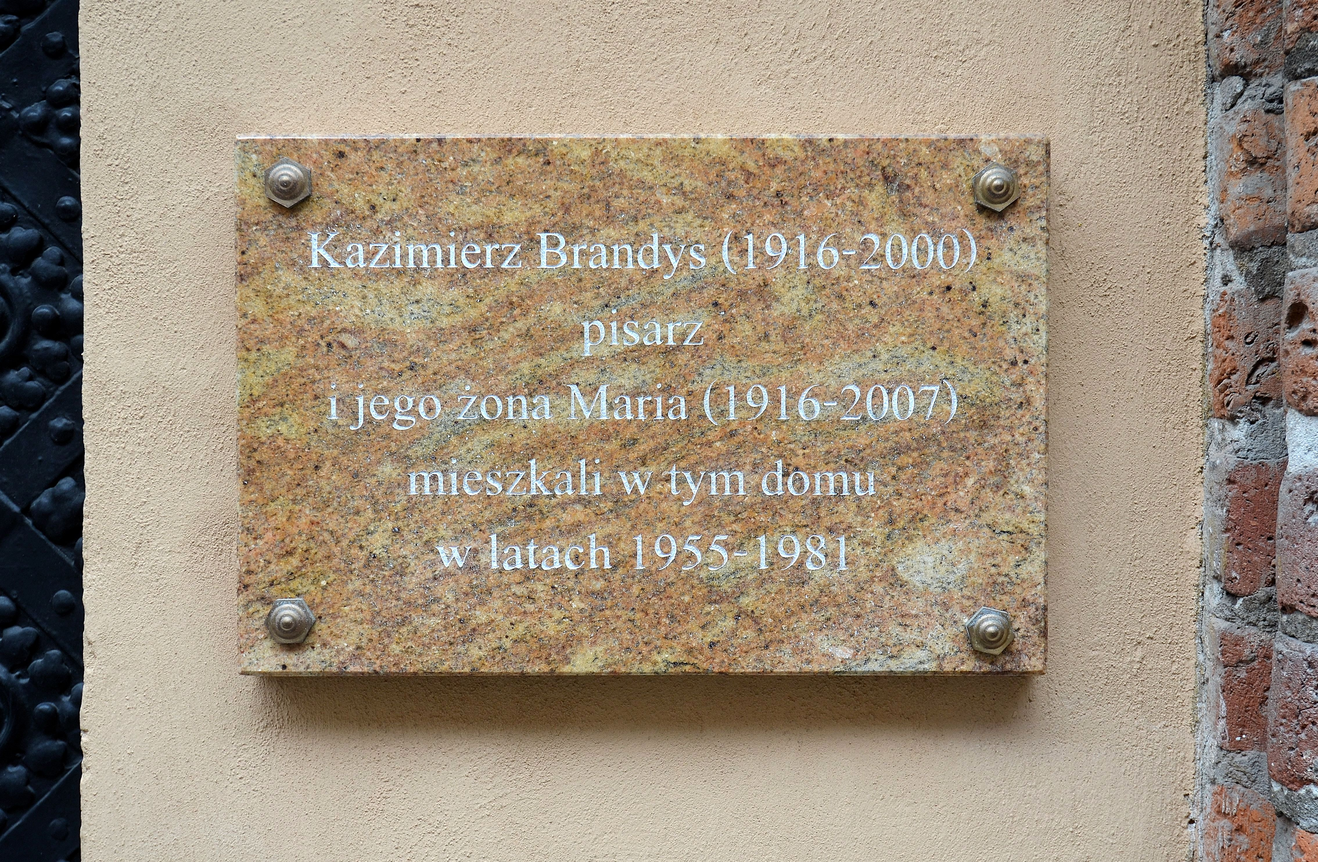 Plaque in memory of Kazimierz Brandys and his wife Maria at 5 Nowomiejska Street in Warsaw